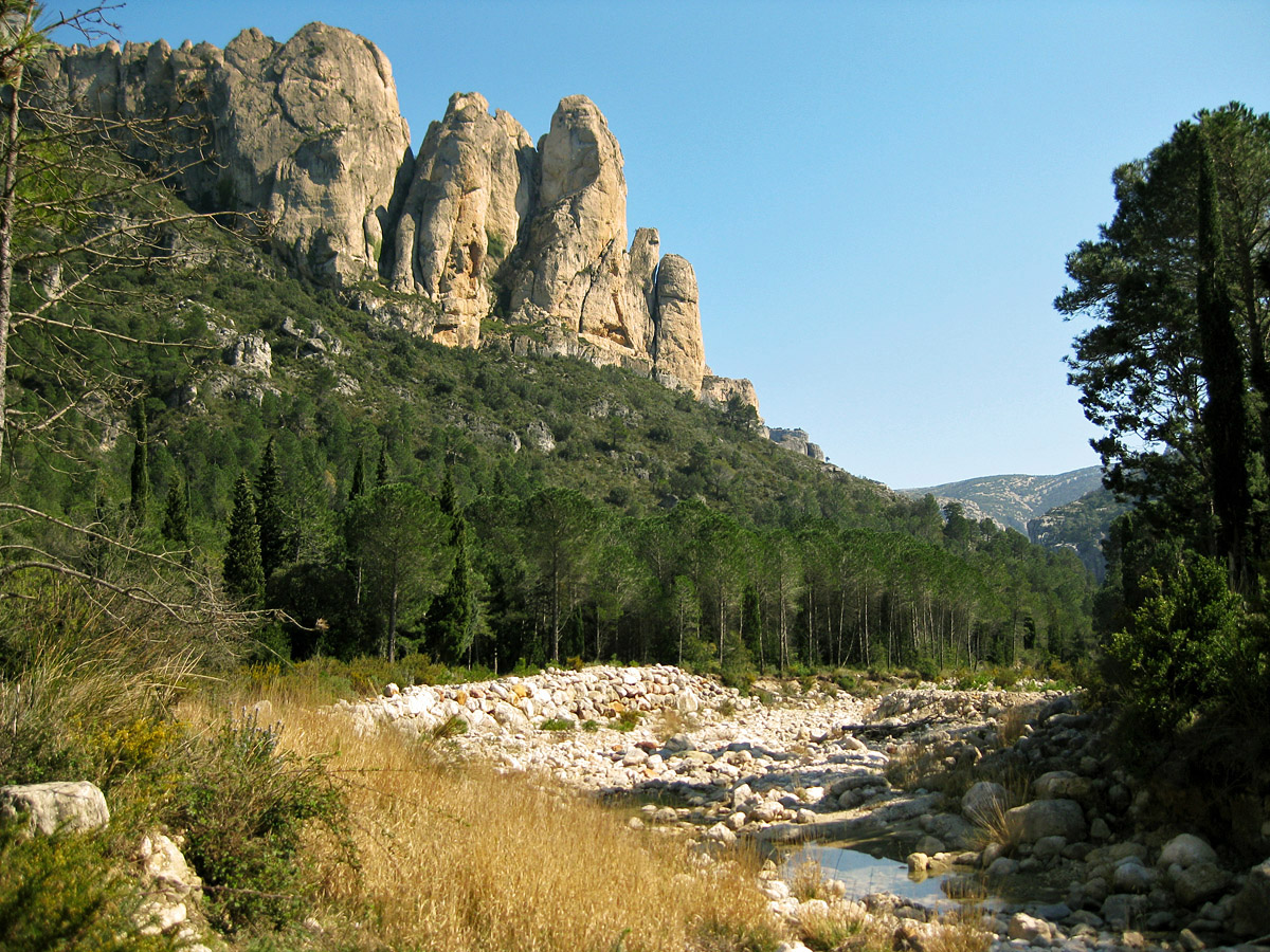 View of the Ports mountain range, La Vall (Mas de Barberans), southern Catalonia.